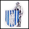 Coat of arms of Hernádkércs, Hungary